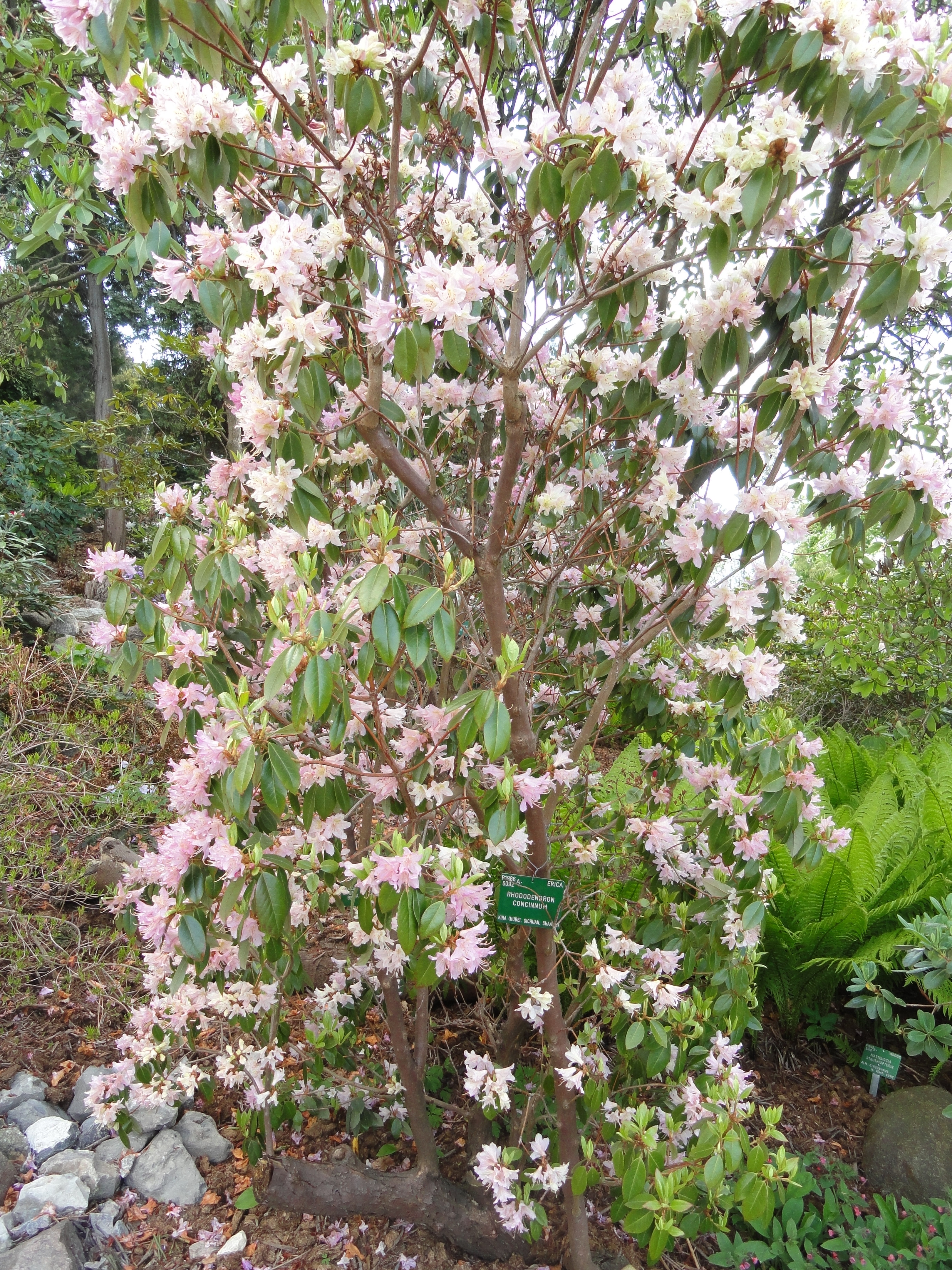 Rhododendron concinnum specimen in the University of Copenhagen Botanical Garden, Copenhagen, Denmark.